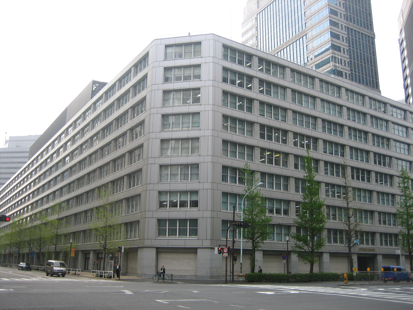 Otemachi building in Tokyo, Japan